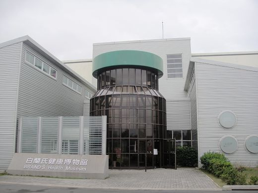 BRAND'S Health Museum中文（中国大陆）: 白兰氏健康博物馆